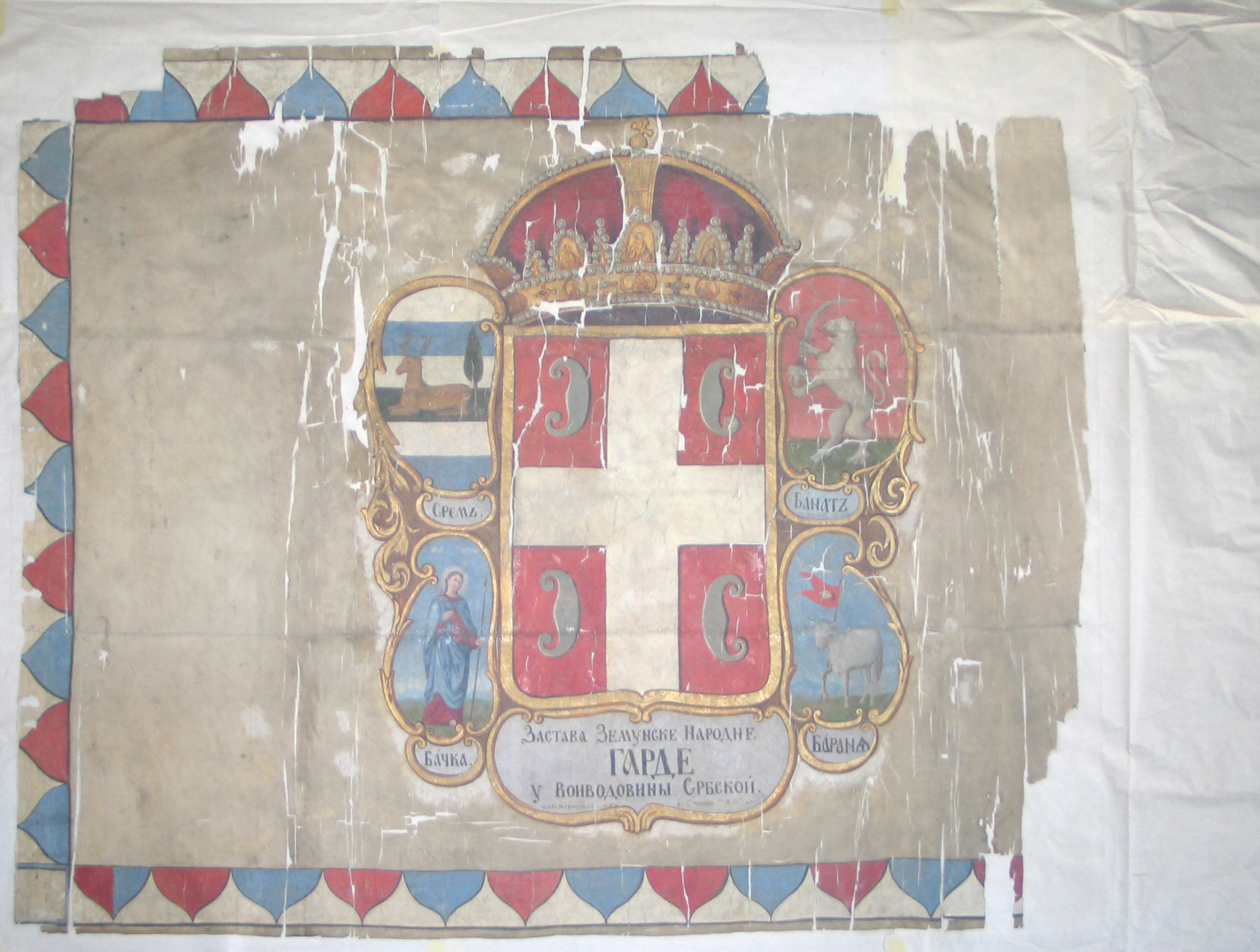 Flag of Zemun National Guard in Vojvodina Srpska (1848). Work of academic painter Živko Petrović (1806 - 1868) from Zemun. Srpski (latinica): Zastava zemunske narodne garde u Vojvodini Srpskoj (1848). Rad akademskog slikara Živka Petrovića (1806 – 1868) iz Zemuna.